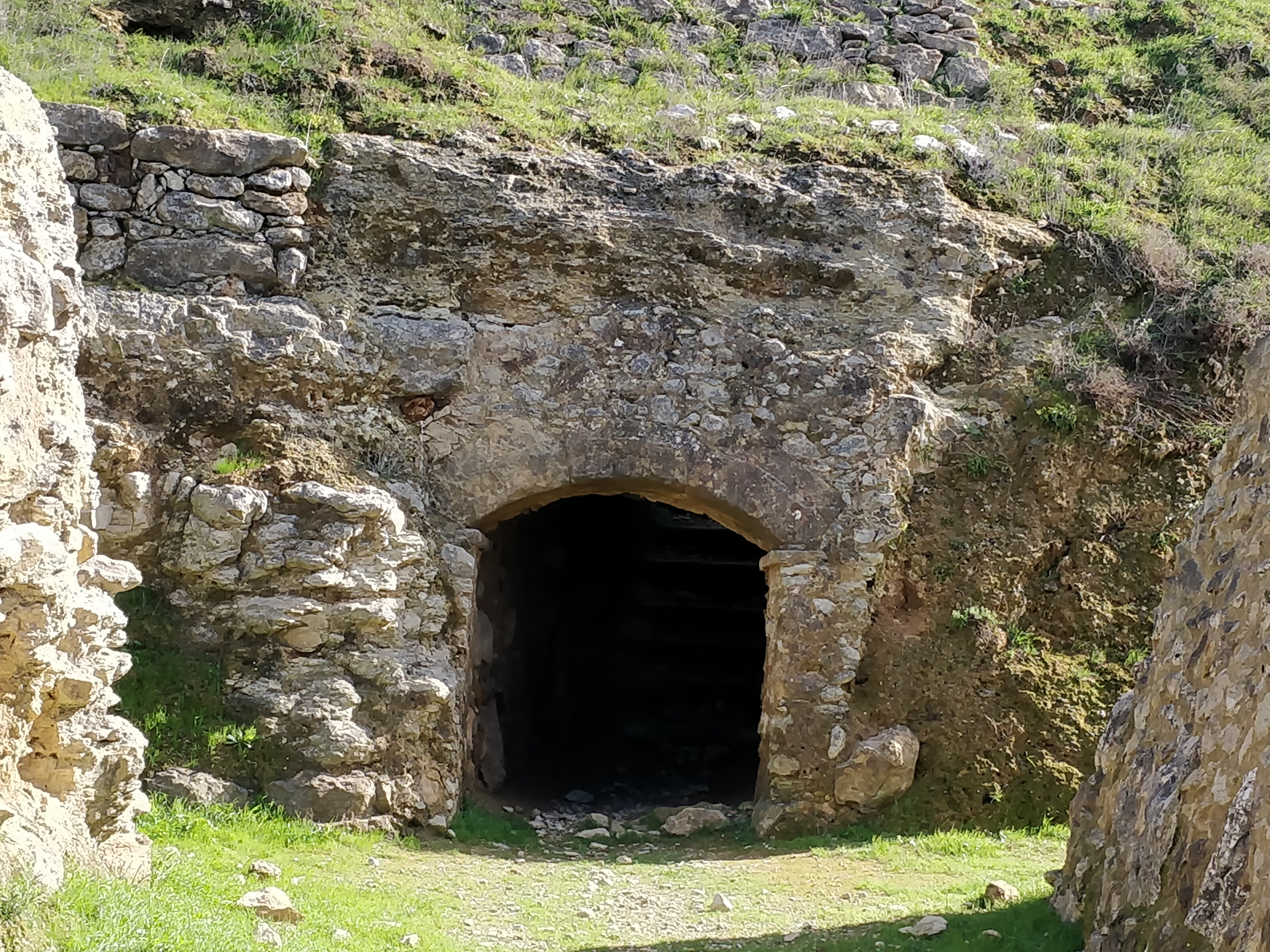 Tunnel connecting stronghold with bastion at the Fort of Zambujal, Mafra, Portugal